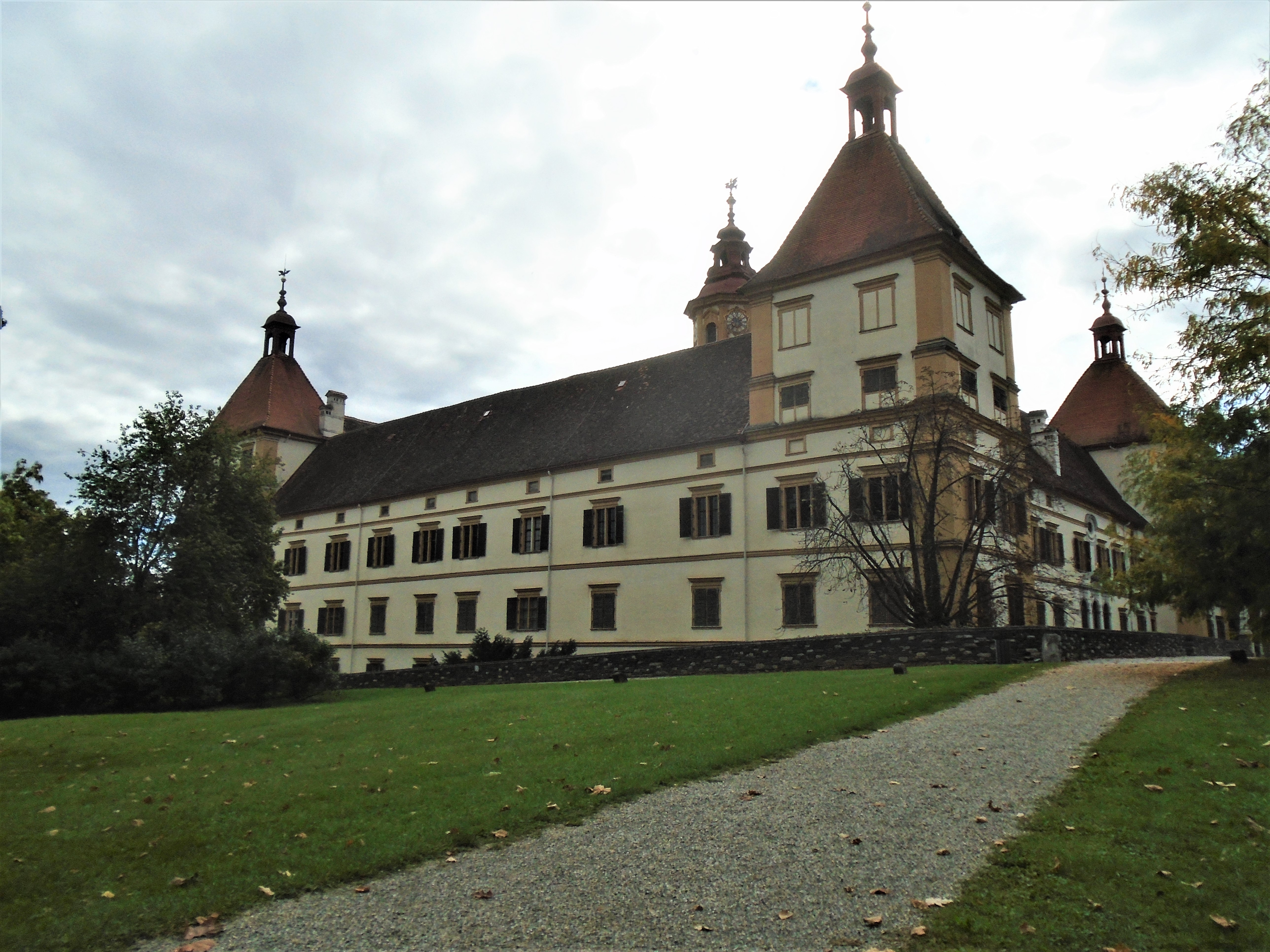 Eggenberg Palace